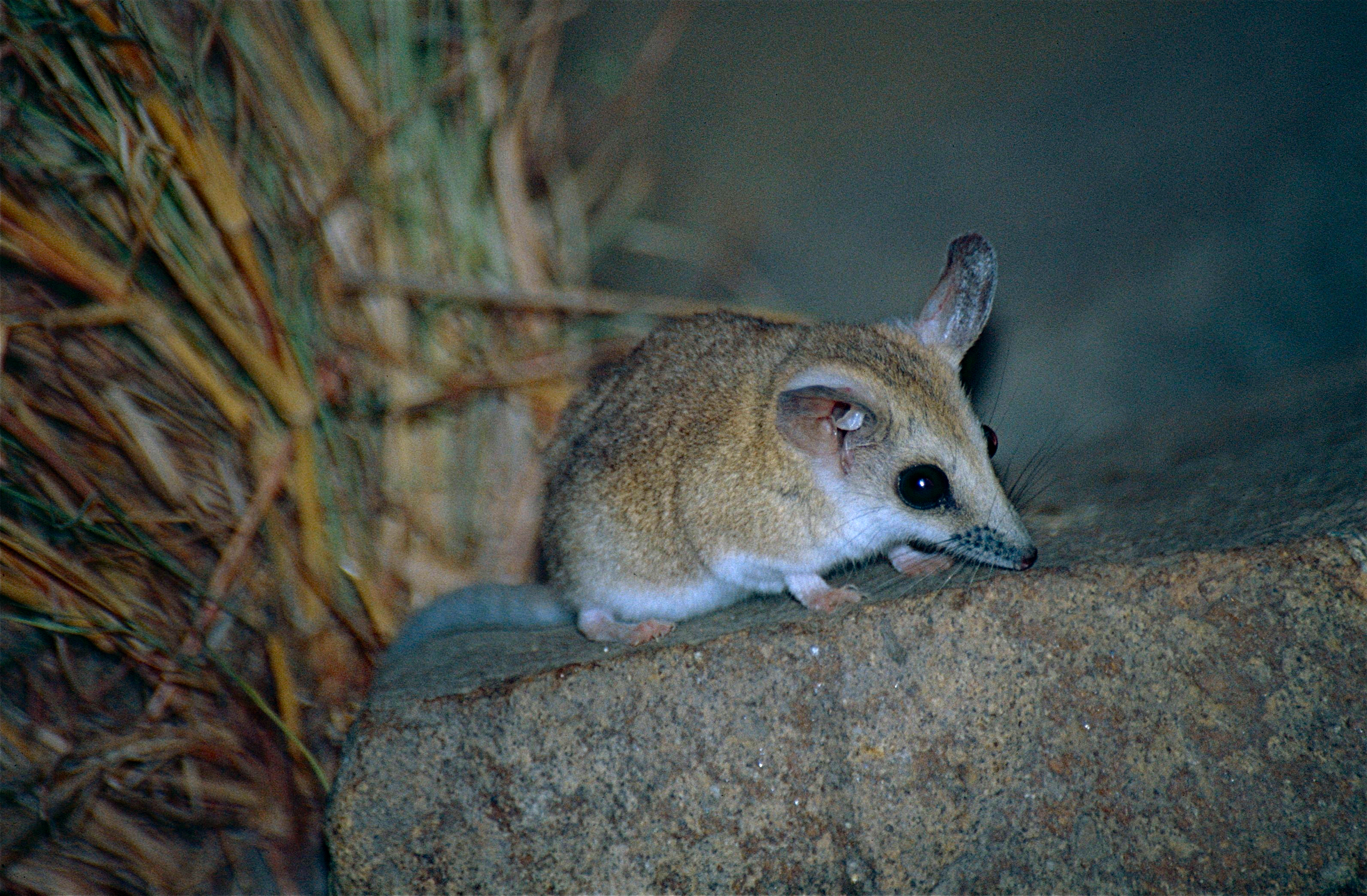 David Fleay Wildlife Park, Burleigh Heads, Gold Coast, South Queensland, AUSTRALIA Scanned Slide from Dec 2000